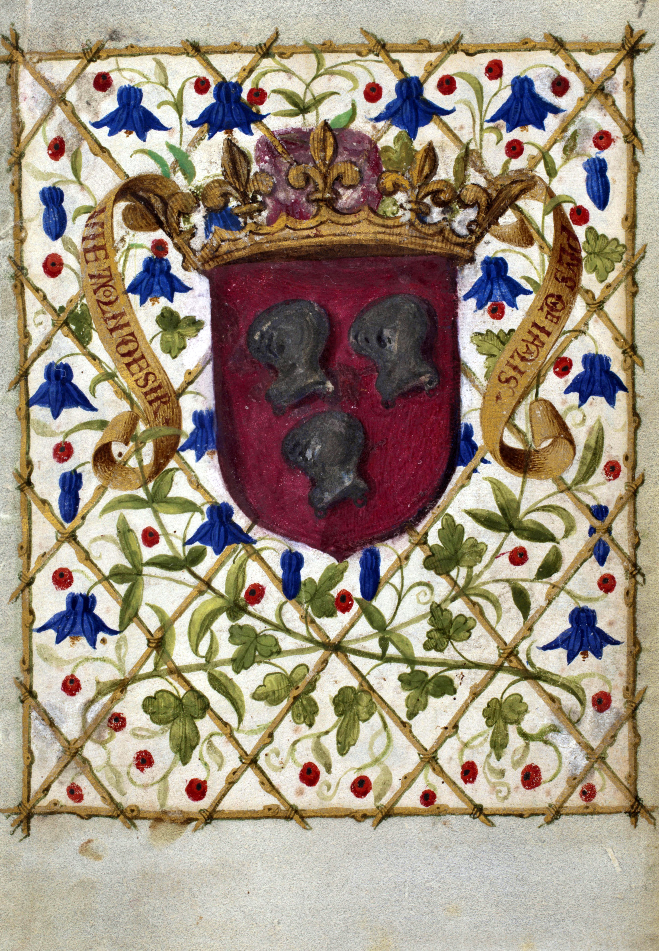 Folio 001r from the Book of Hours of Simon de Varie - KB 74 G37a